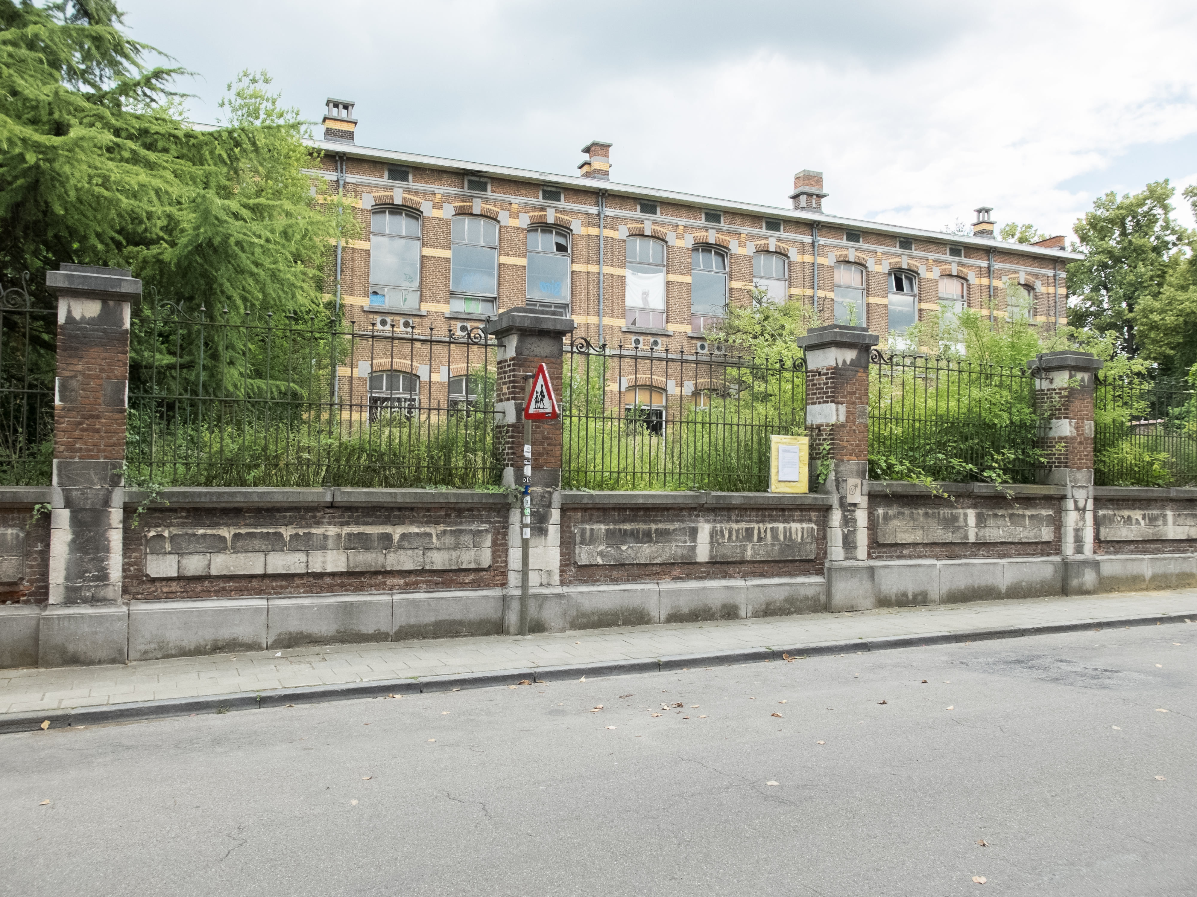 Old school buildings of School 7 or De Zonnewijzer in the Weldadigheidsstraat in Leuven, Belgium.